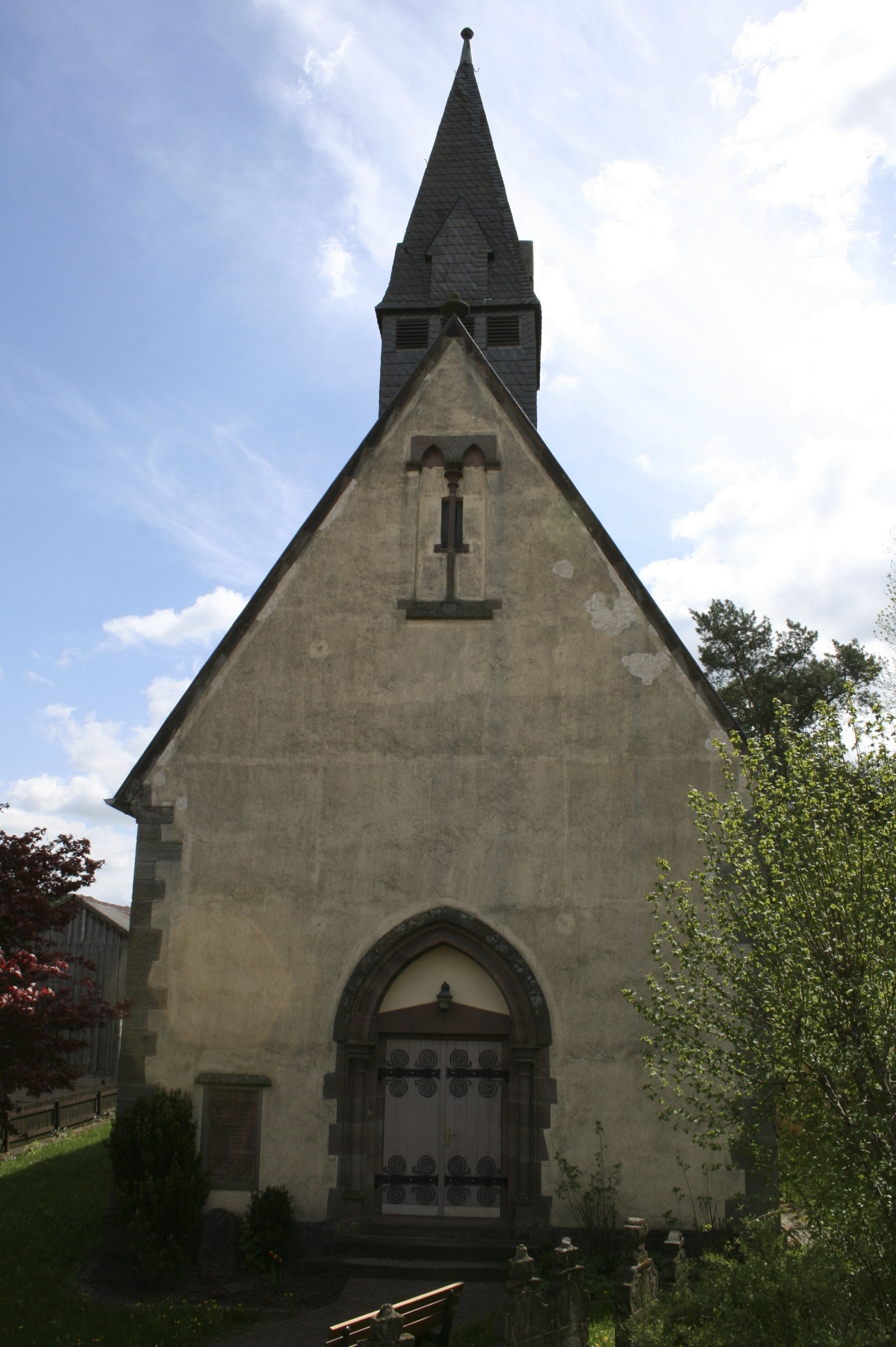 Kirche Braunhausen 3